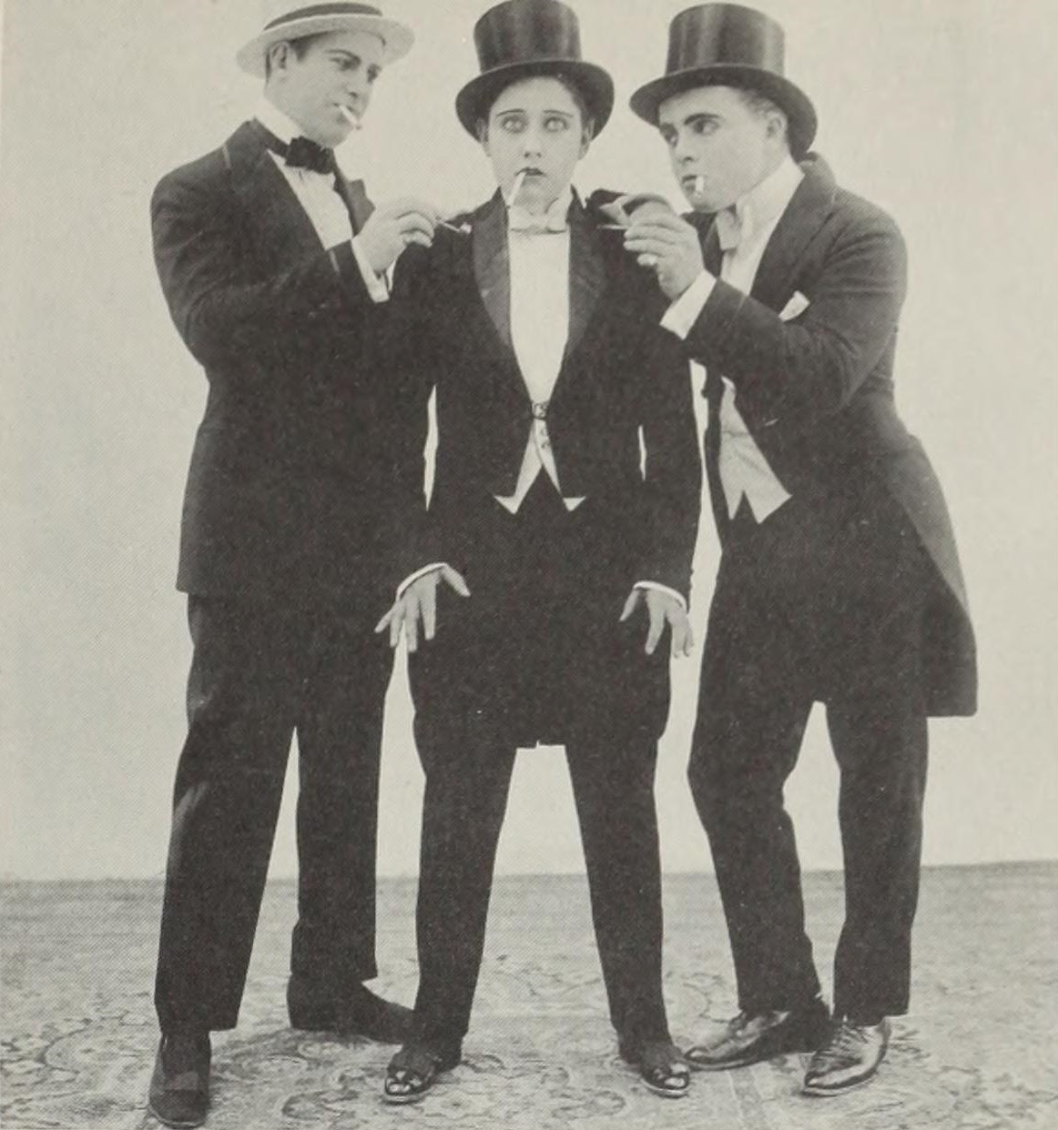 Still from The Danger Girl published in Classics of the Silent Screen